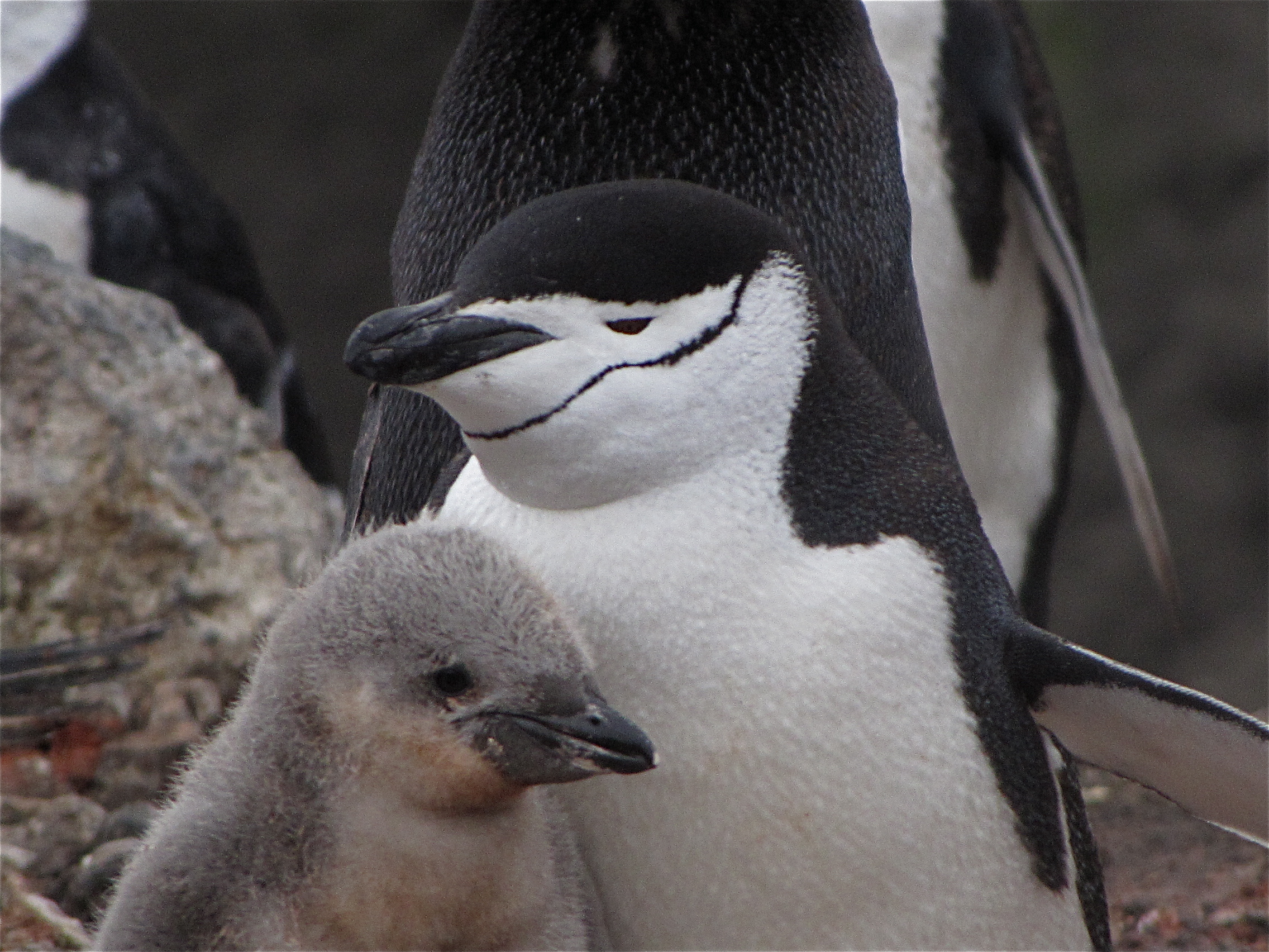 Adult Pygoscelis antarcticus with chick. Antarctic Peninsula.